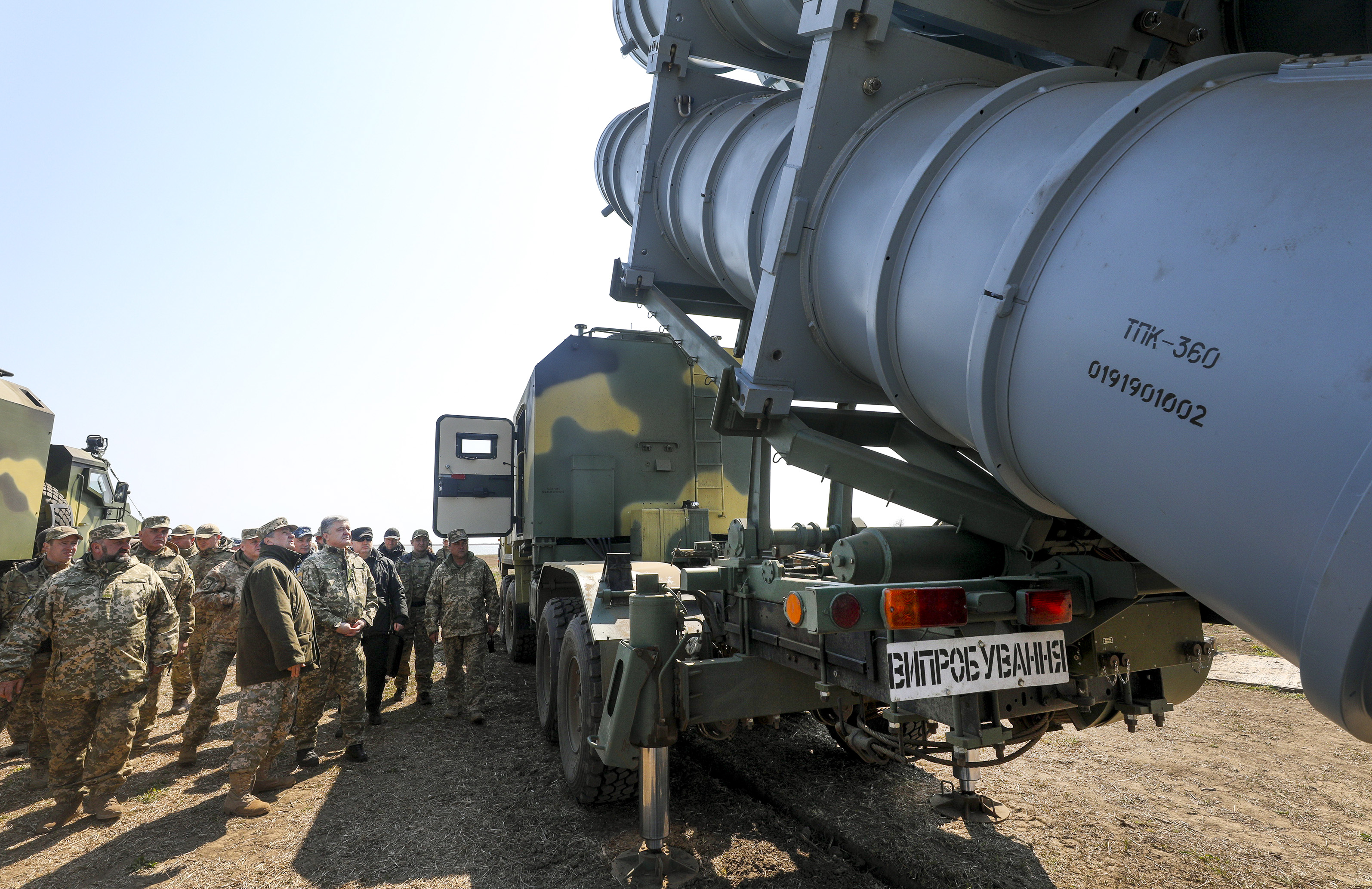 Neptune (cruise missile)